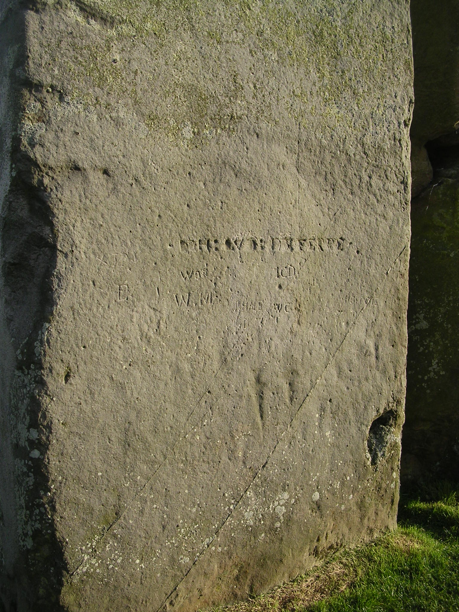 Photo of the standing megalith (stone #53) with the carvings of an axe and a dagger dated back to the bronze age. Photo taken inside the Stonehenge circle at 6:45 PM GMT on April 23, 2005 by Kristian H Resset, Norway